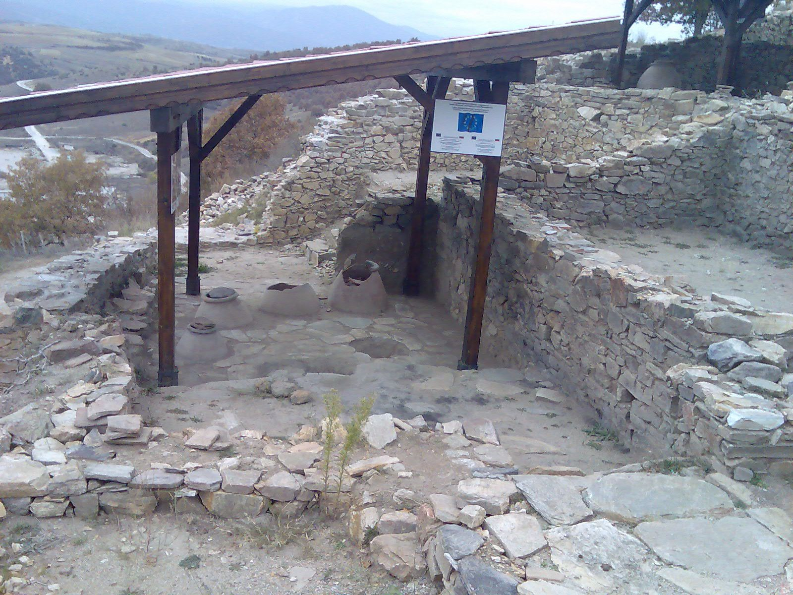 Ancient fortress near Hadzhidimovo, Bulgaria, where now the chapel "Saint Dimitar" is located.